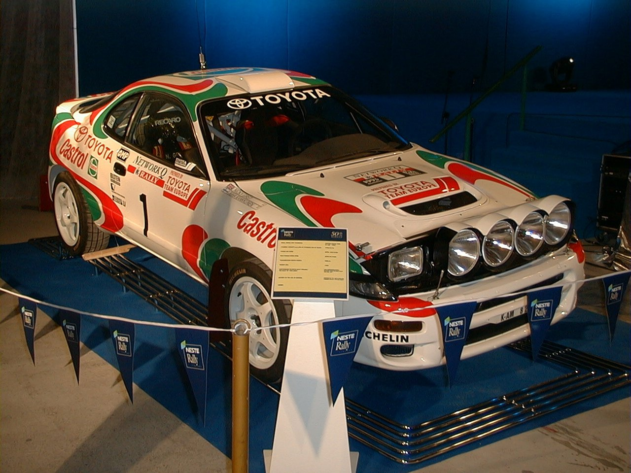 Juha Kankkunen's 1993 Rally GB winning Toyota Celica Turbo 4WD / GT-Four (ST185)